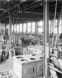 C.M. Hess's oven and stove factory in Vejle, Denmark, in 1906.